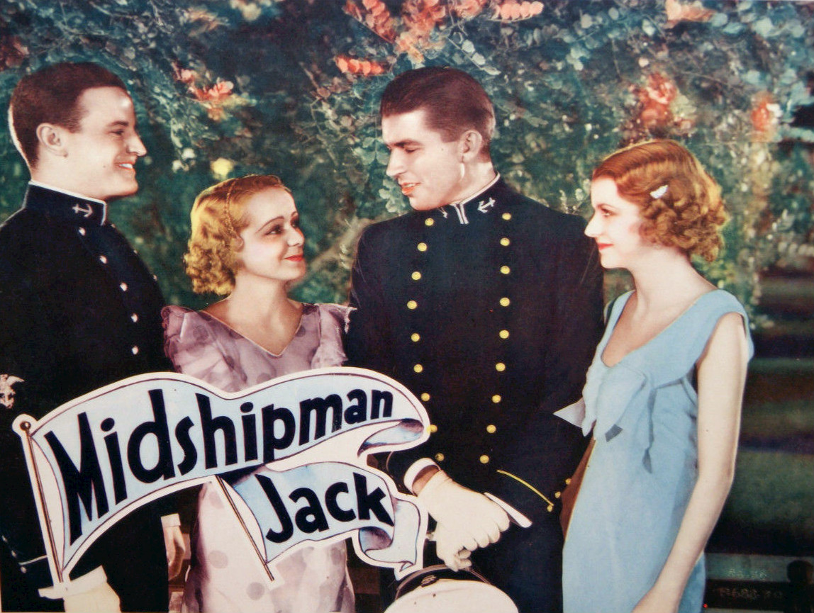 Lobby card for the American action drama film Midshipman Jack (1935). The item has no copyright markings on it as can be seen in the links above and the uncropped copy. At bottom left is Country of origin USA.